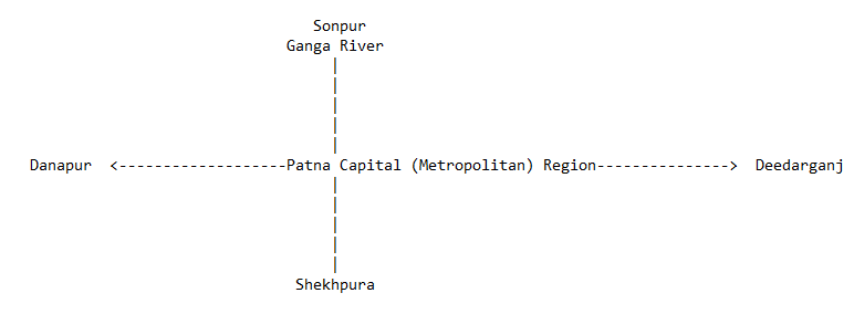 Patnametropolitan